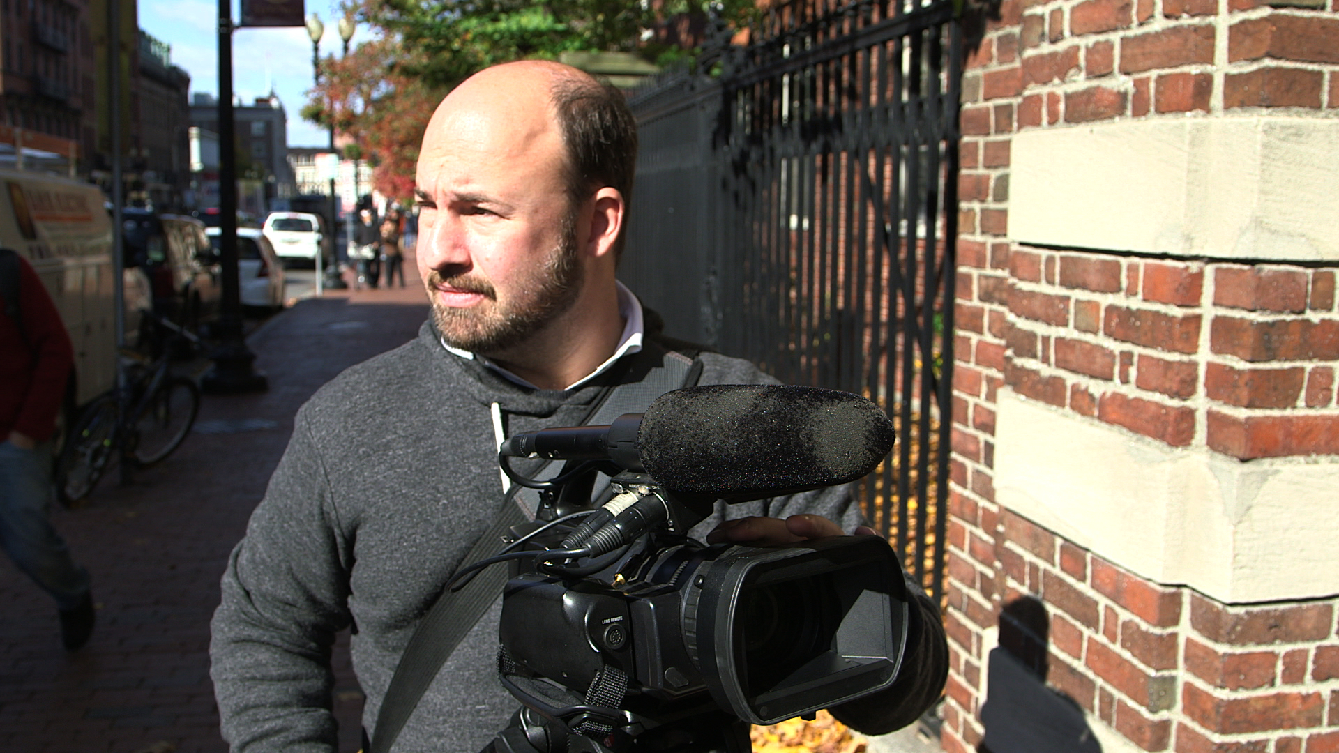 photograph of filmmaker Andrew Rossi at work